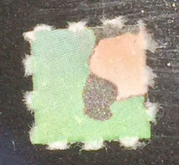 LSD crystals visible on a blotter.